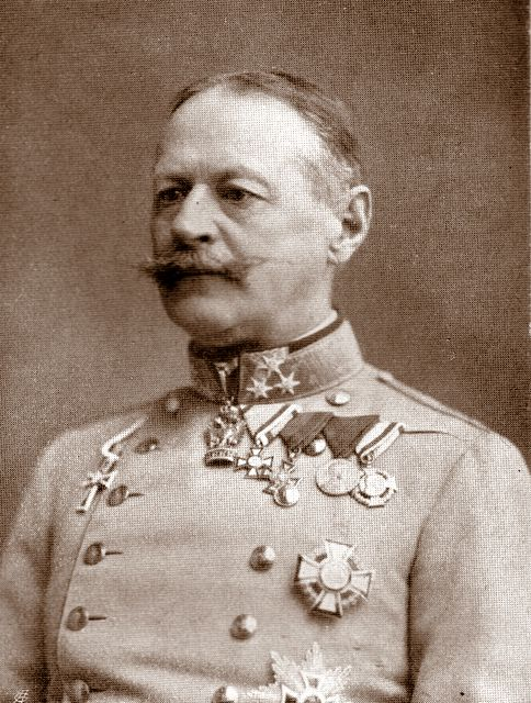 Baron Alexander von Krobatin (1854-1933) field marshal of Austria-Hungary